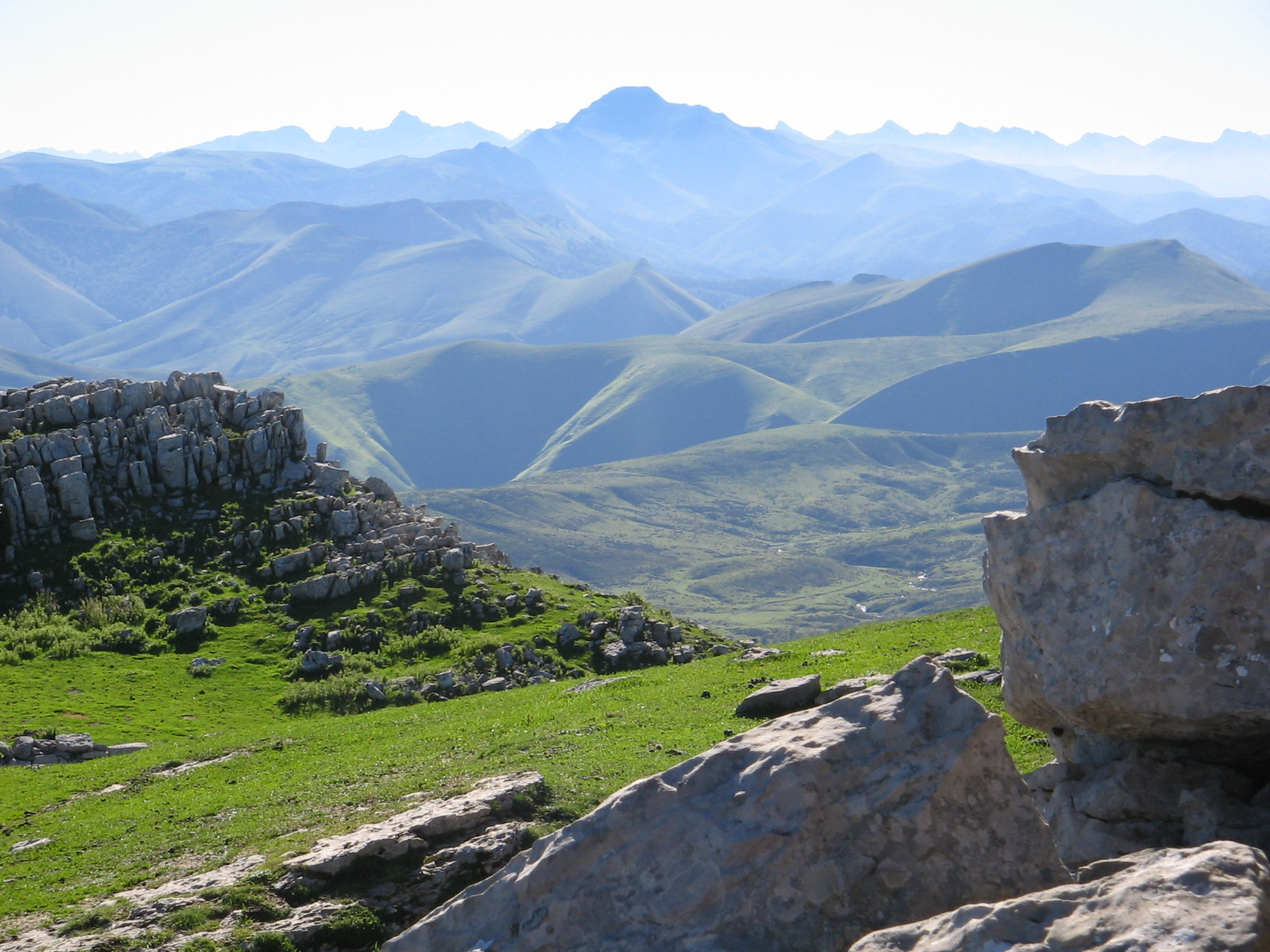 View to the east from Mt. Urkulu (1,419 m) with peak Orhy in the background and Hiru Erregeen Mahaia further back, in the Western Pyrenees